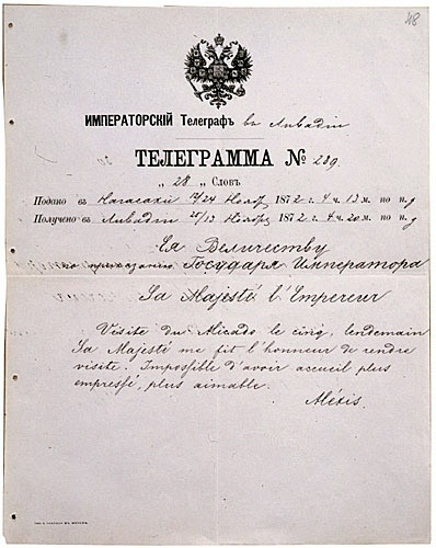 Telegram of the Grand Duke Alexei Alexandrovich to Tsar Alexander II of Russia